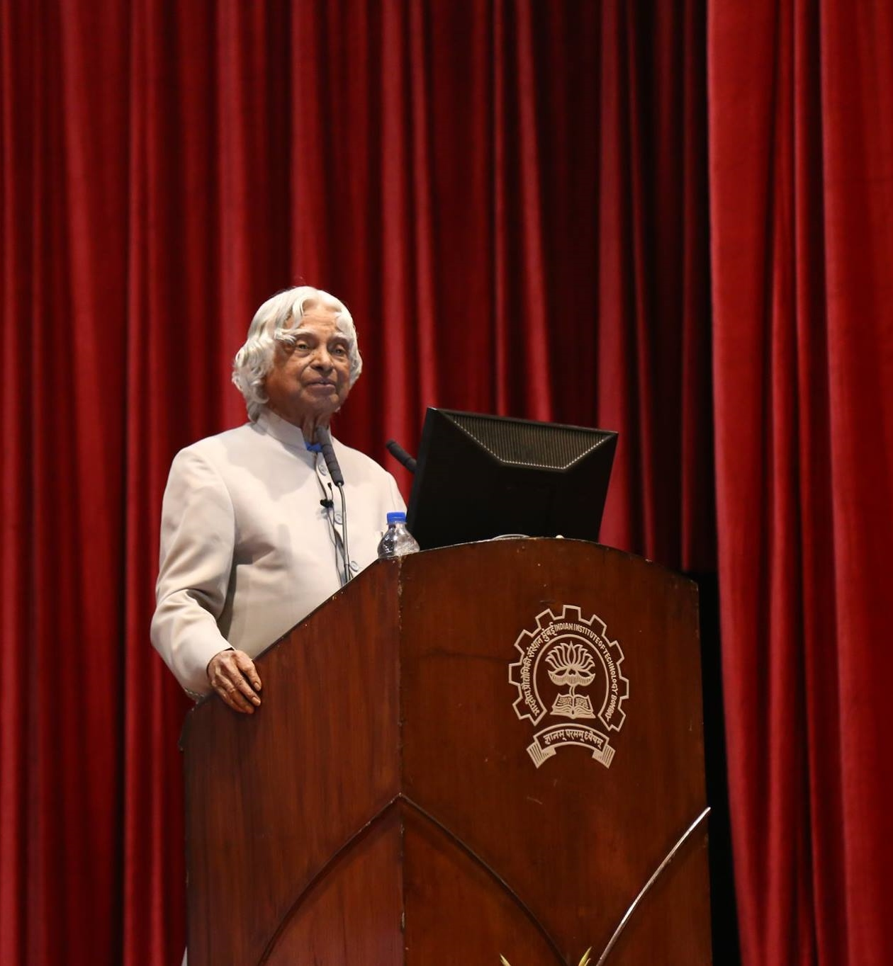 A lecture by APJ Abdul Kalam in Techfest 2015 at IIT Bombay